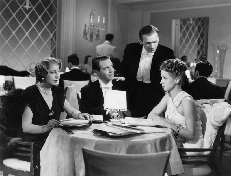 Left to right: Helen Broderick, Louis Hayward, Douglas Fairbanks, Jr. and Danielle Darrieux in The Rage of Paris (1938) - cropped screenshot